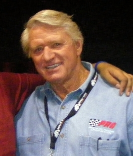 Ivan Stewart known in the Off Road community as the Ironman, at the 2008 Off Road Impact Show. This photo was taken on March 7, 2008.